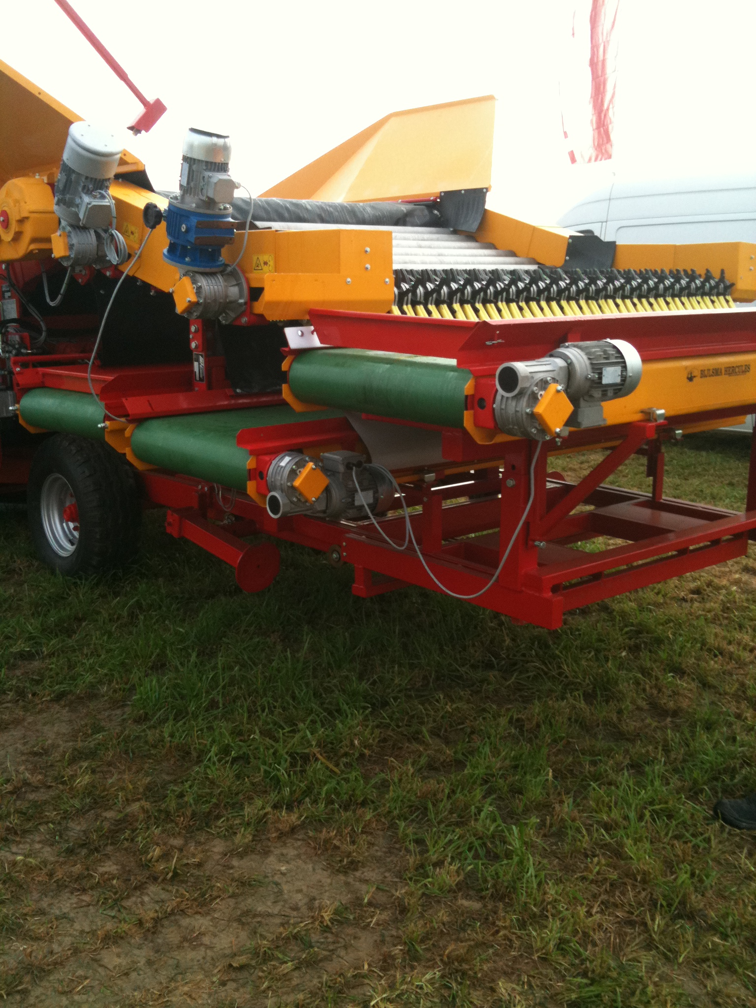 receiving hopper for potatoes